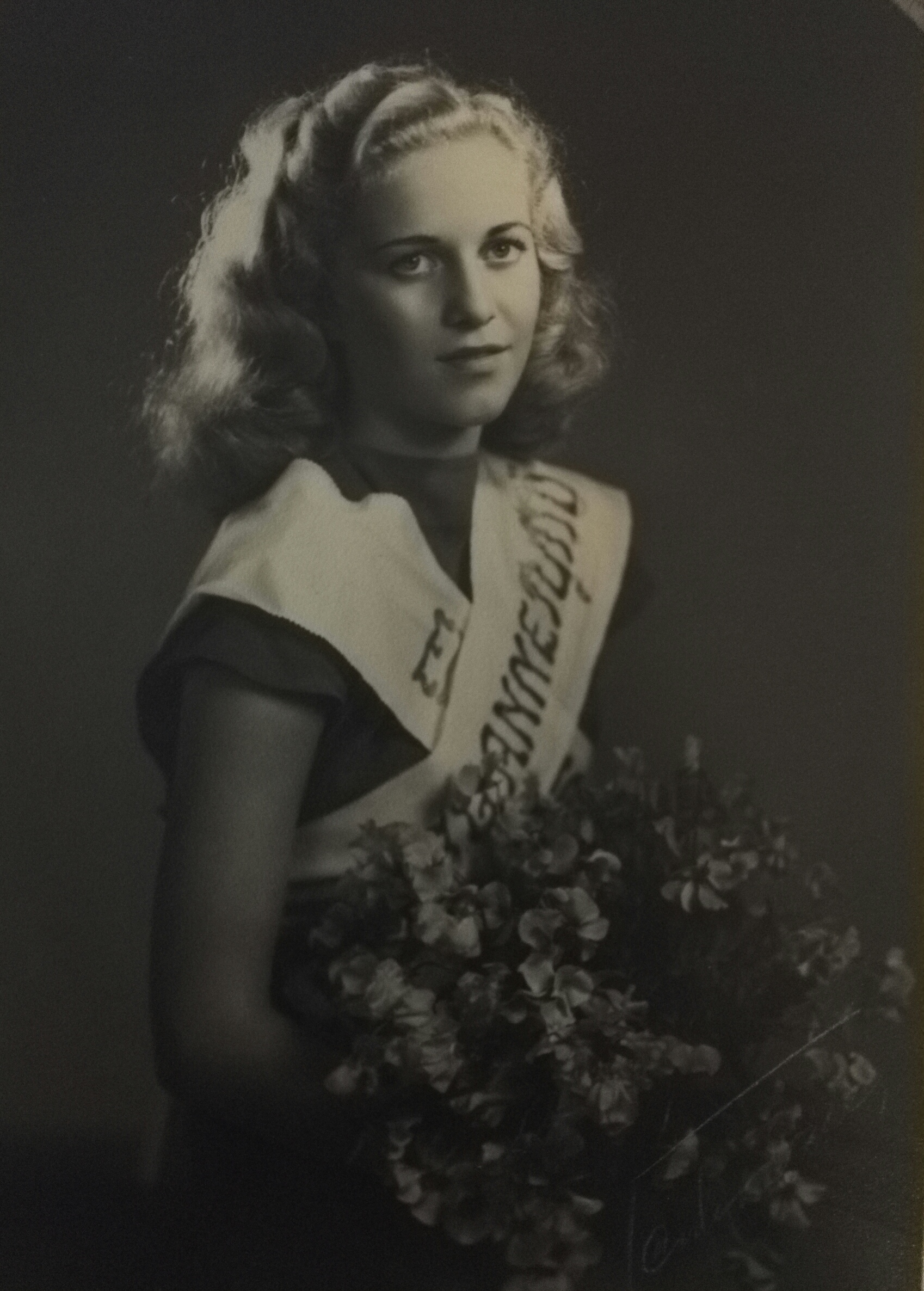 Old Photogaphe